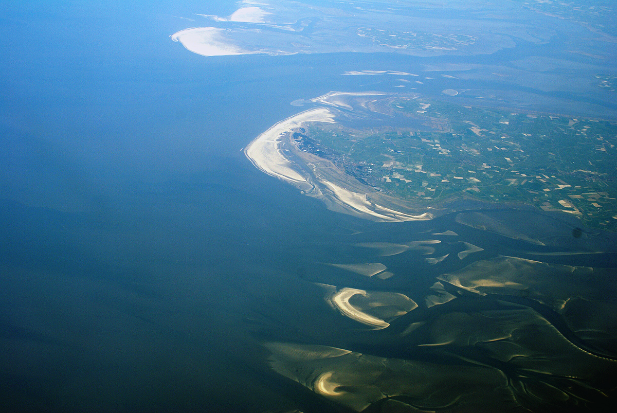 Photo from the air of Wadden Sea of Nordfriesland and Dithmarschen, Southern Schleswig, Germany. In the middle is the peninsula Eiderstedt, to the south the small islands of Trischen and Tertius, in the north several sandbanks